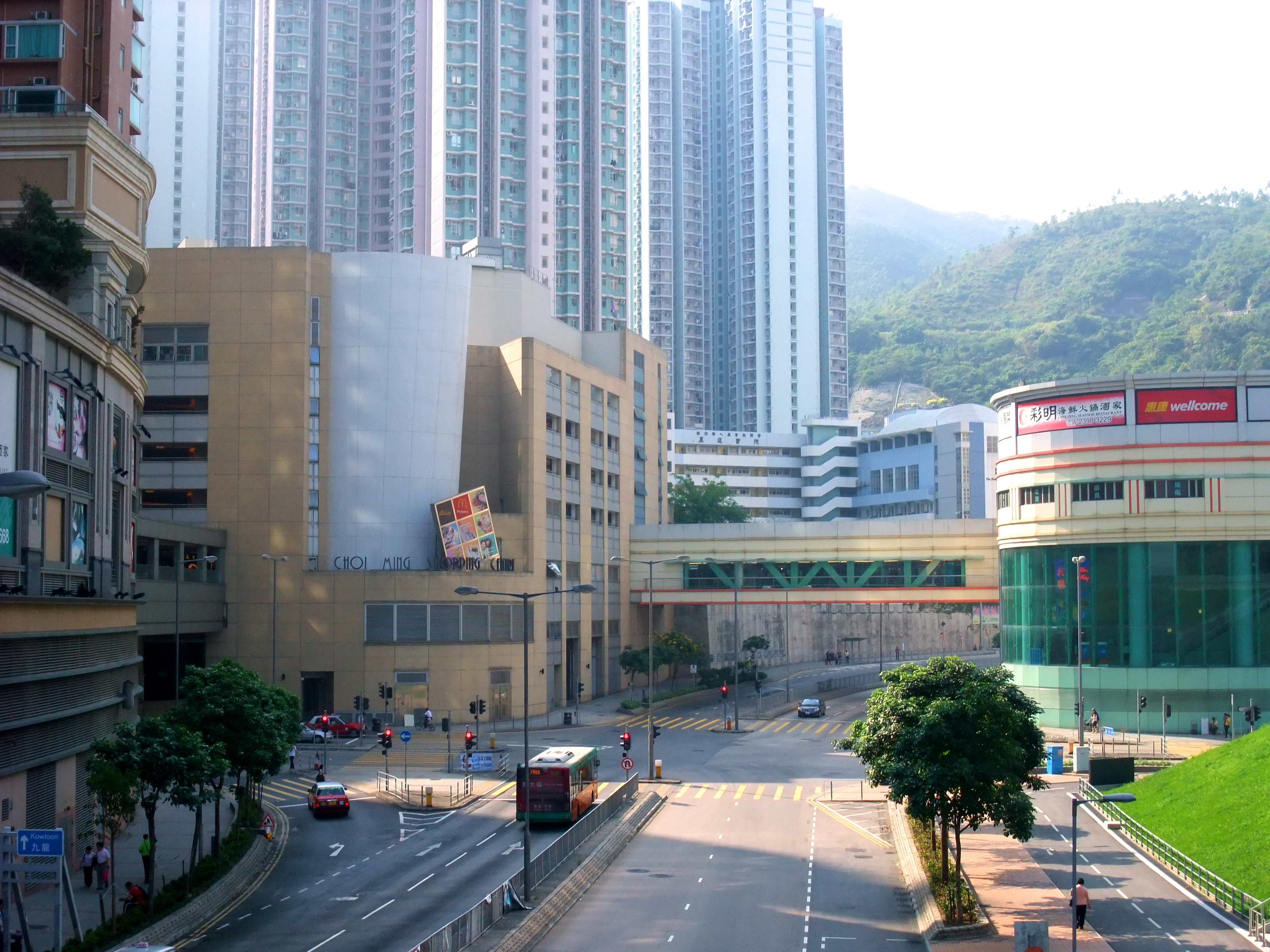 Choi Ming Court Shopping Centre Phase 1 and 2. The buildings in the background is Kin Ming Estate.